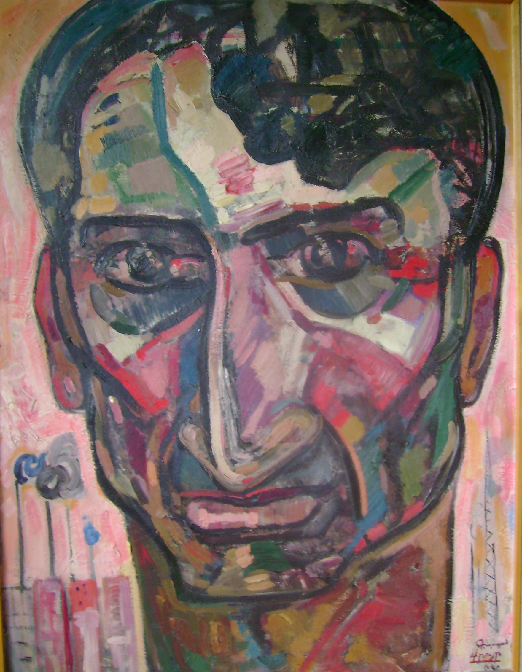 Vruir Galstian-Charents